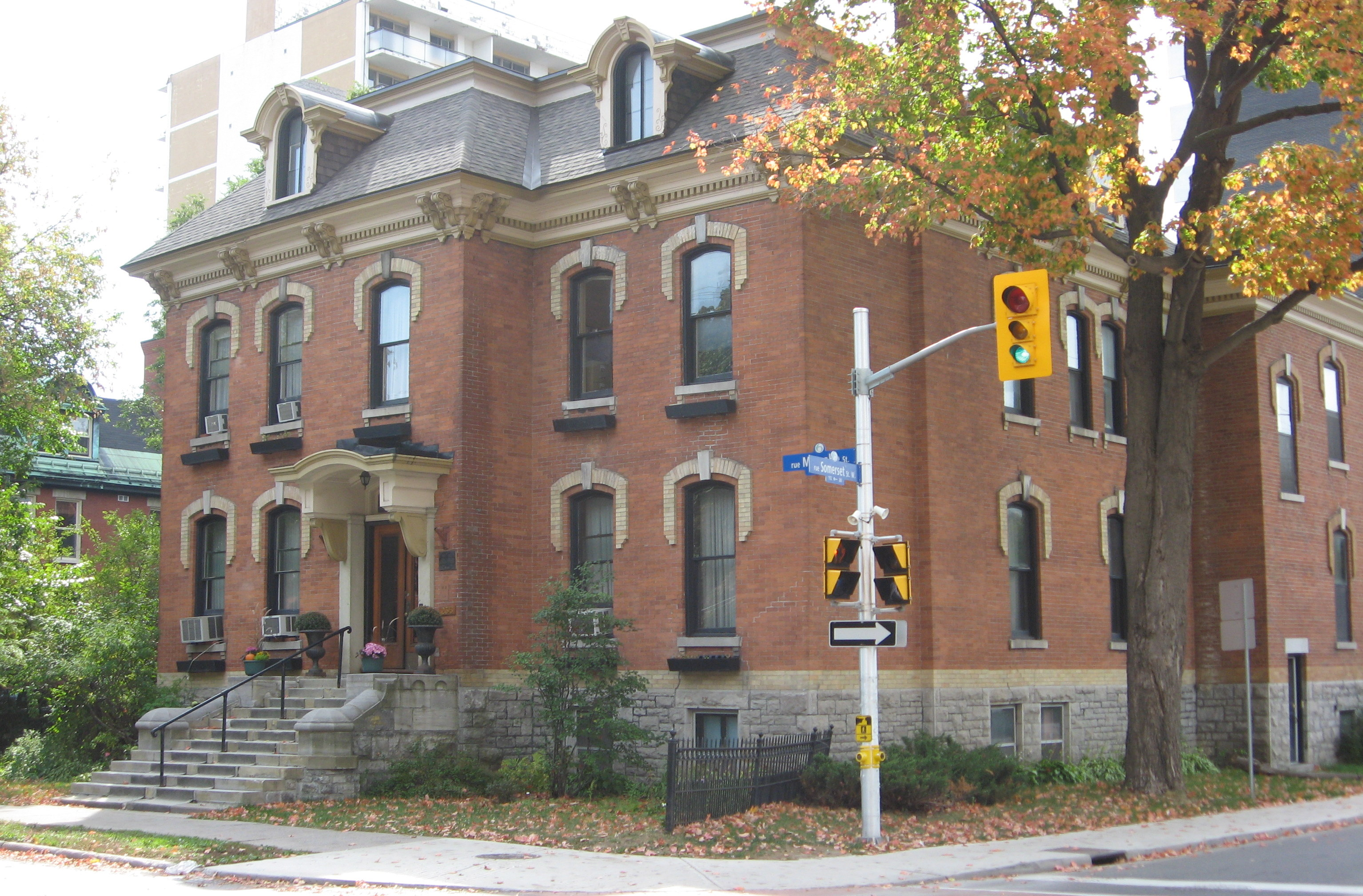 Campbell House, a designated heritage property in Ottawa, Canada